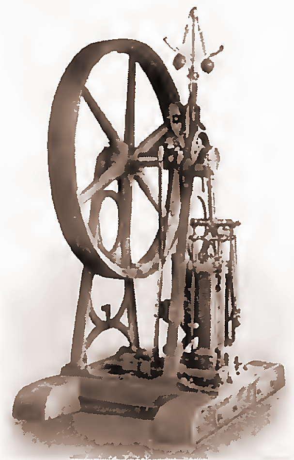 First stationary steam engine built by Matthias W. Baldwin, 1828. Illustration from History of the Baldwin Locomotive Works, 1831-1920." Philadelphia: 1920; pg. 8. Published in the USA prior to 1923, public domain. Additional digital editing by Tim Davenport ("Carrite") for Wikipedia, no copyright claimed, released to the public domain without restriction. Note: This is a low resolution image and a careful rescan from the original source is desirable. {[keep local